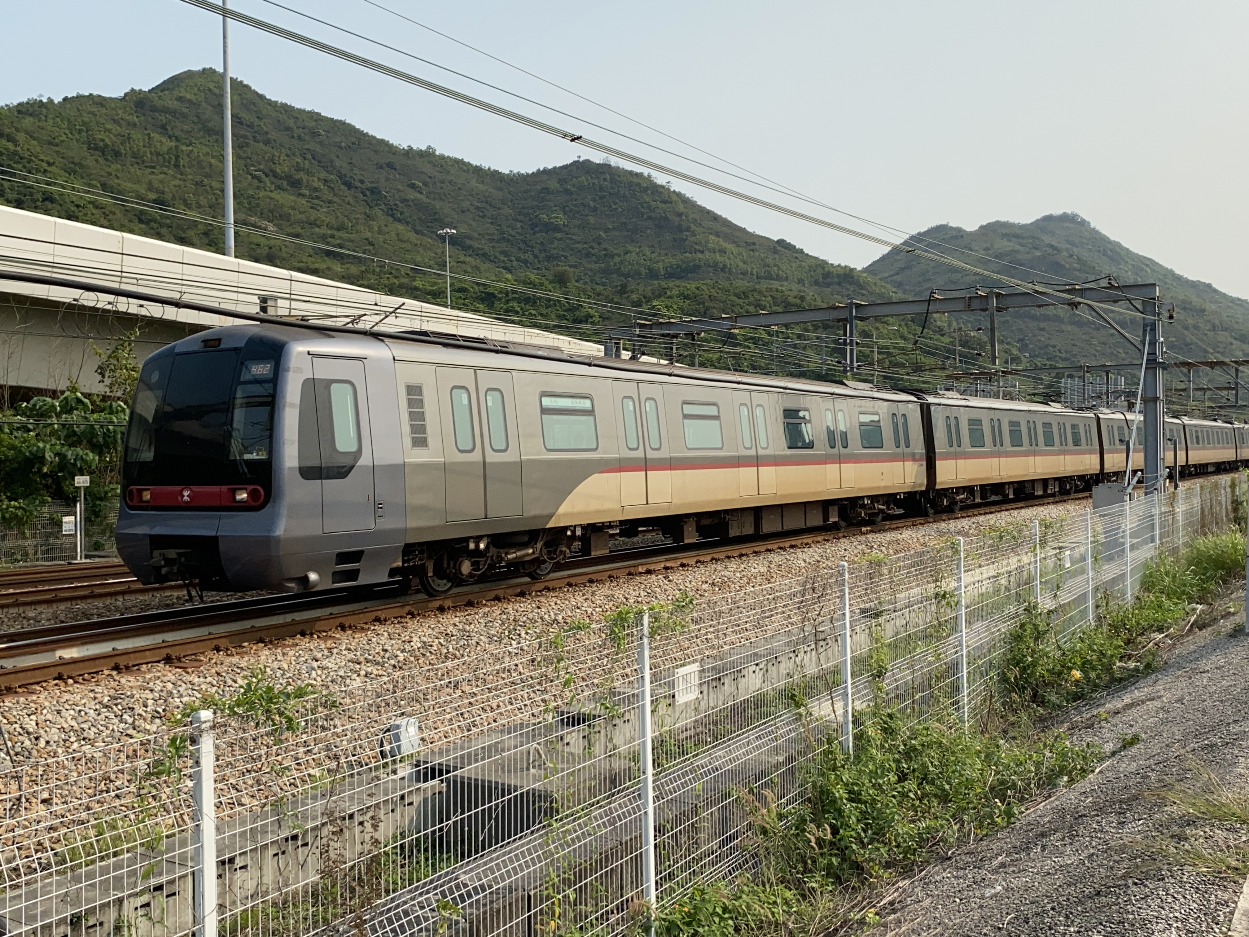 中文（香港）: This photo is taken in Sunny Bay.